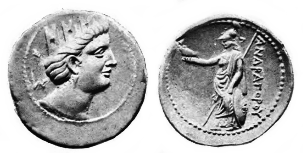 Andragoras Tetradrachm